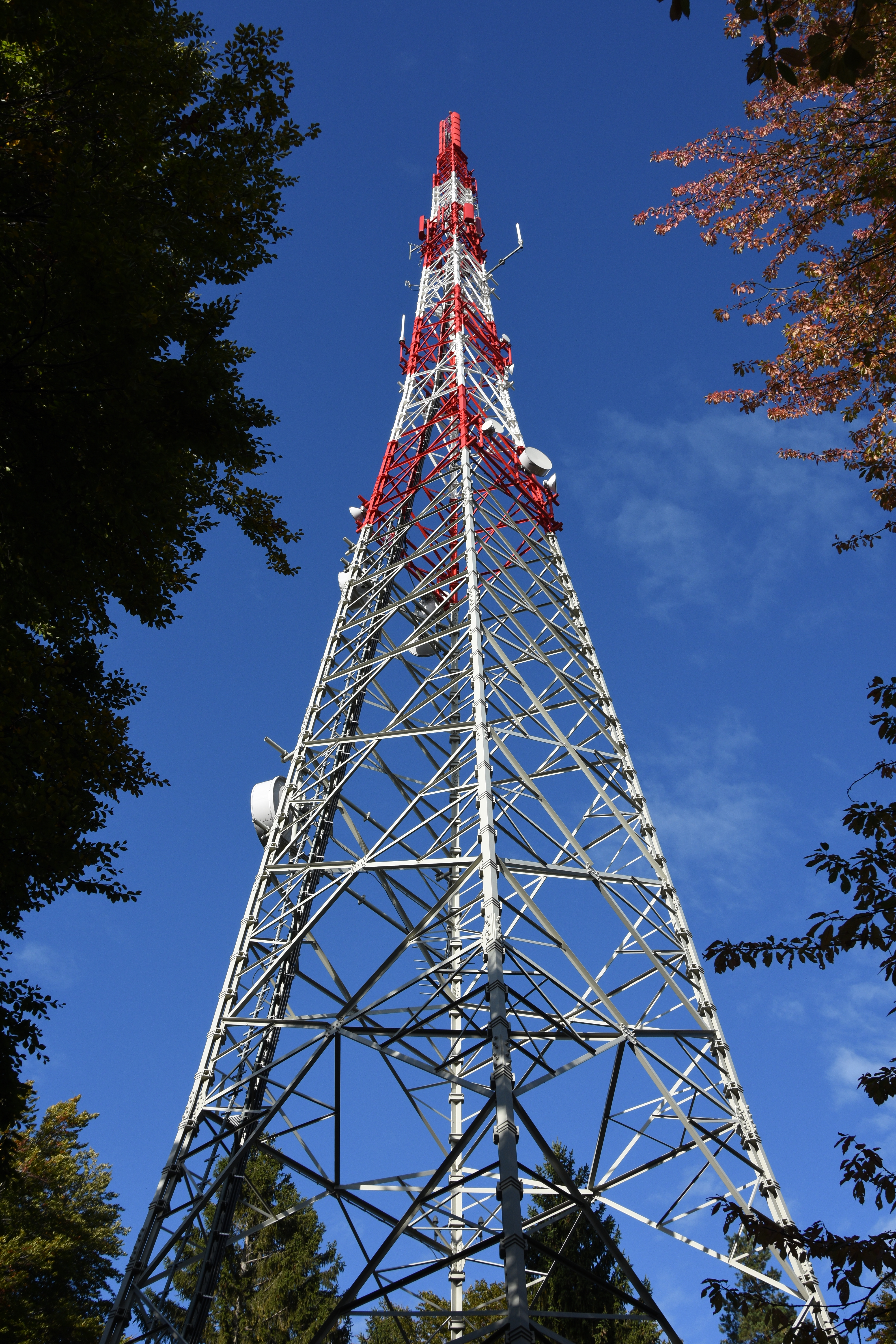 Stradner Kogel